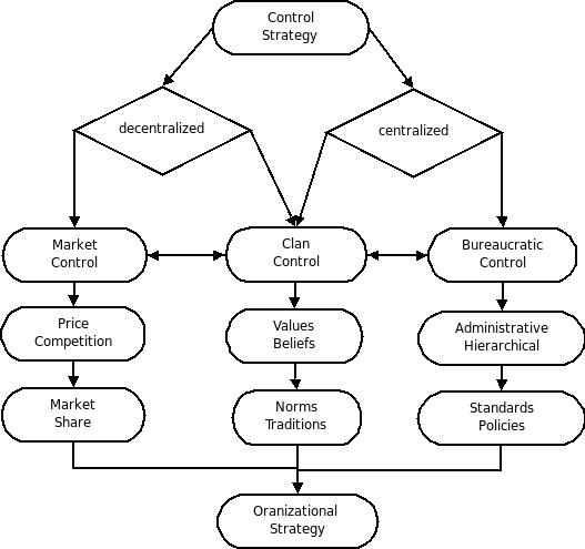 Control Strategy Diagram